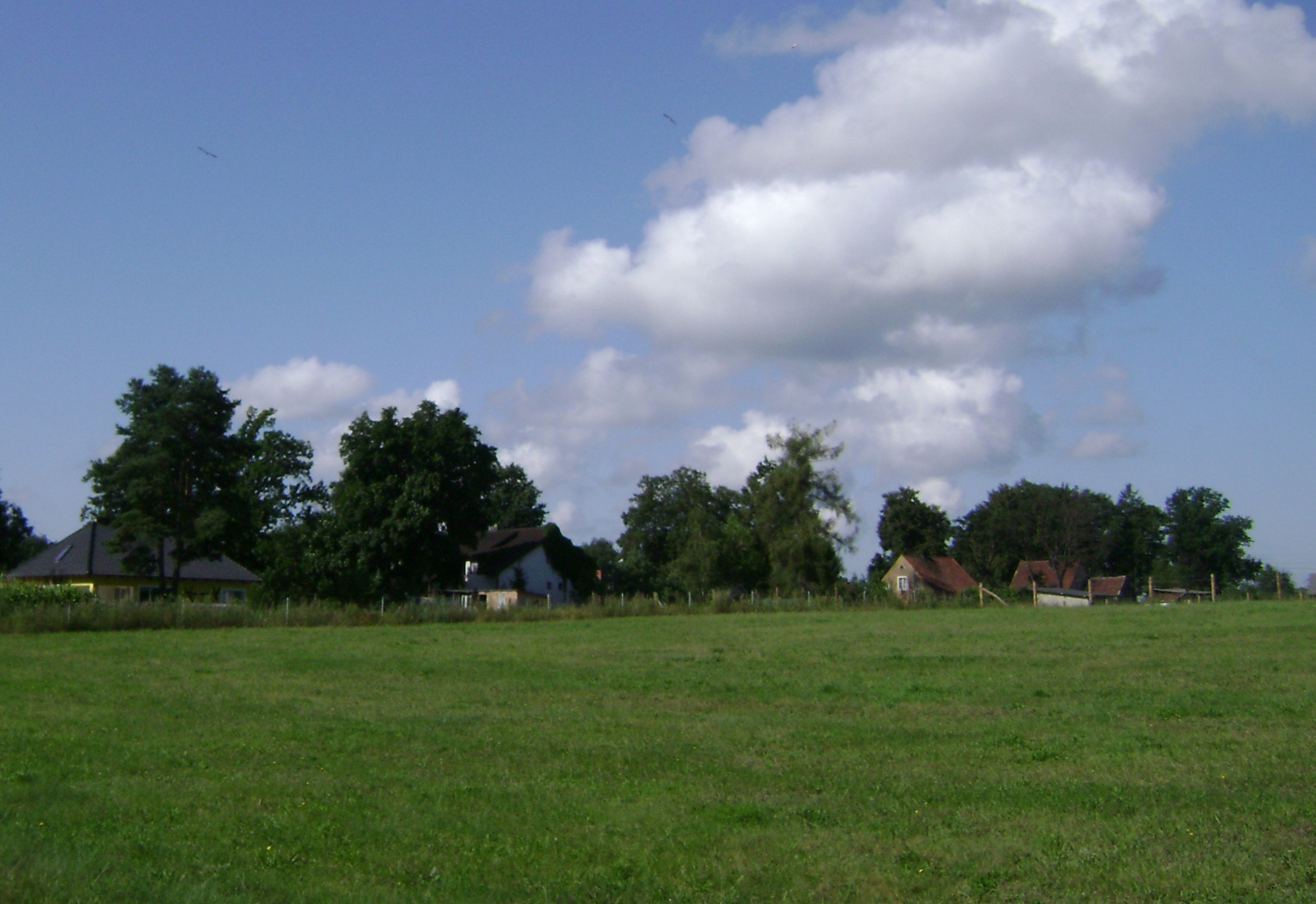 Poland. Gmina Szczytno. Sędańsk